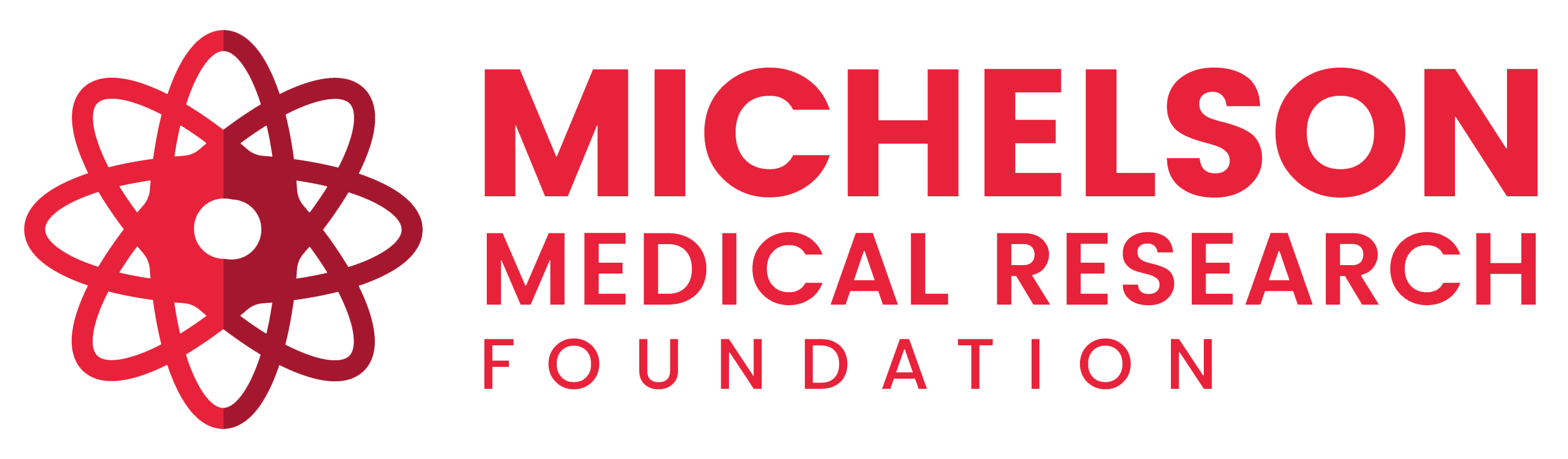 Introduced in December 2017, the current iteration of the Michelson Medical Research Foundation logo was designed by graphic artist Kristen Abercrombie.